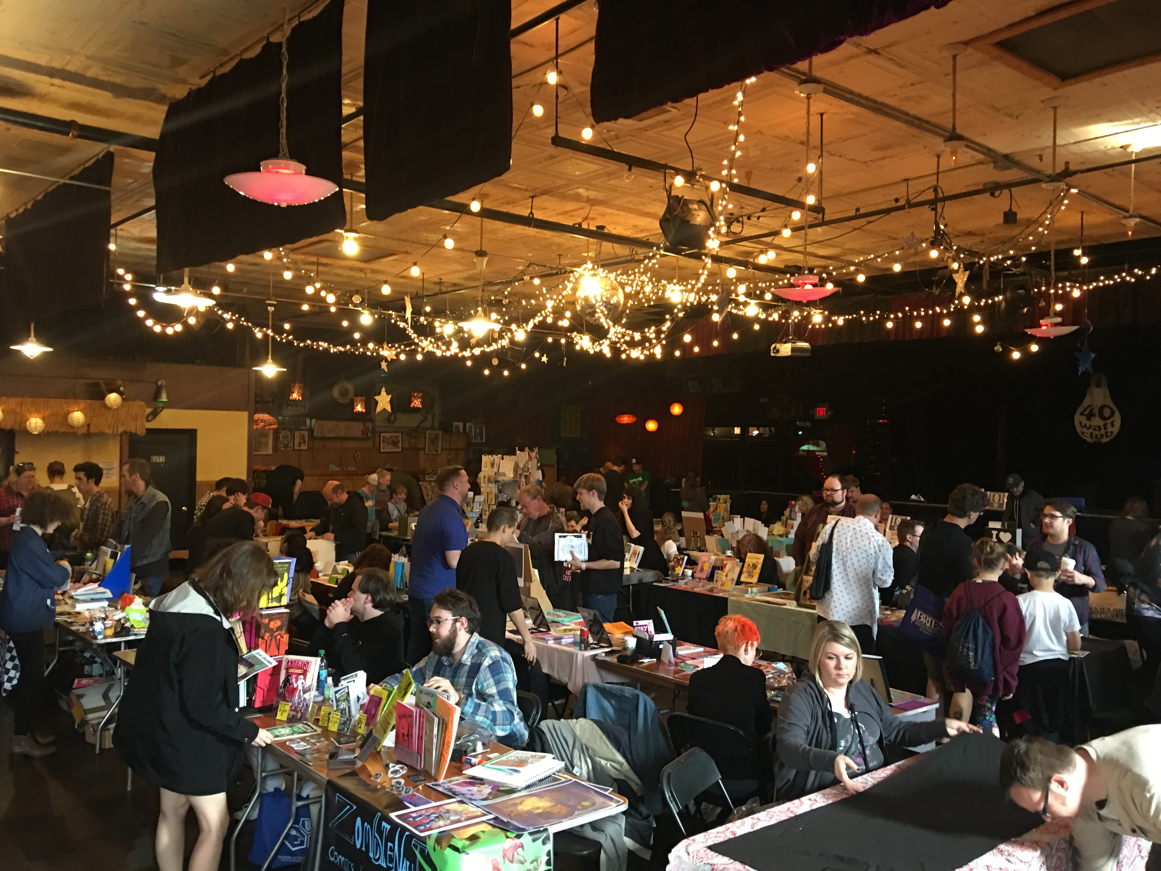 The annual FLUKE Mini-Comics & Zine Festival inside the 40 Watt Club in Athens, Georgia, in 2018.